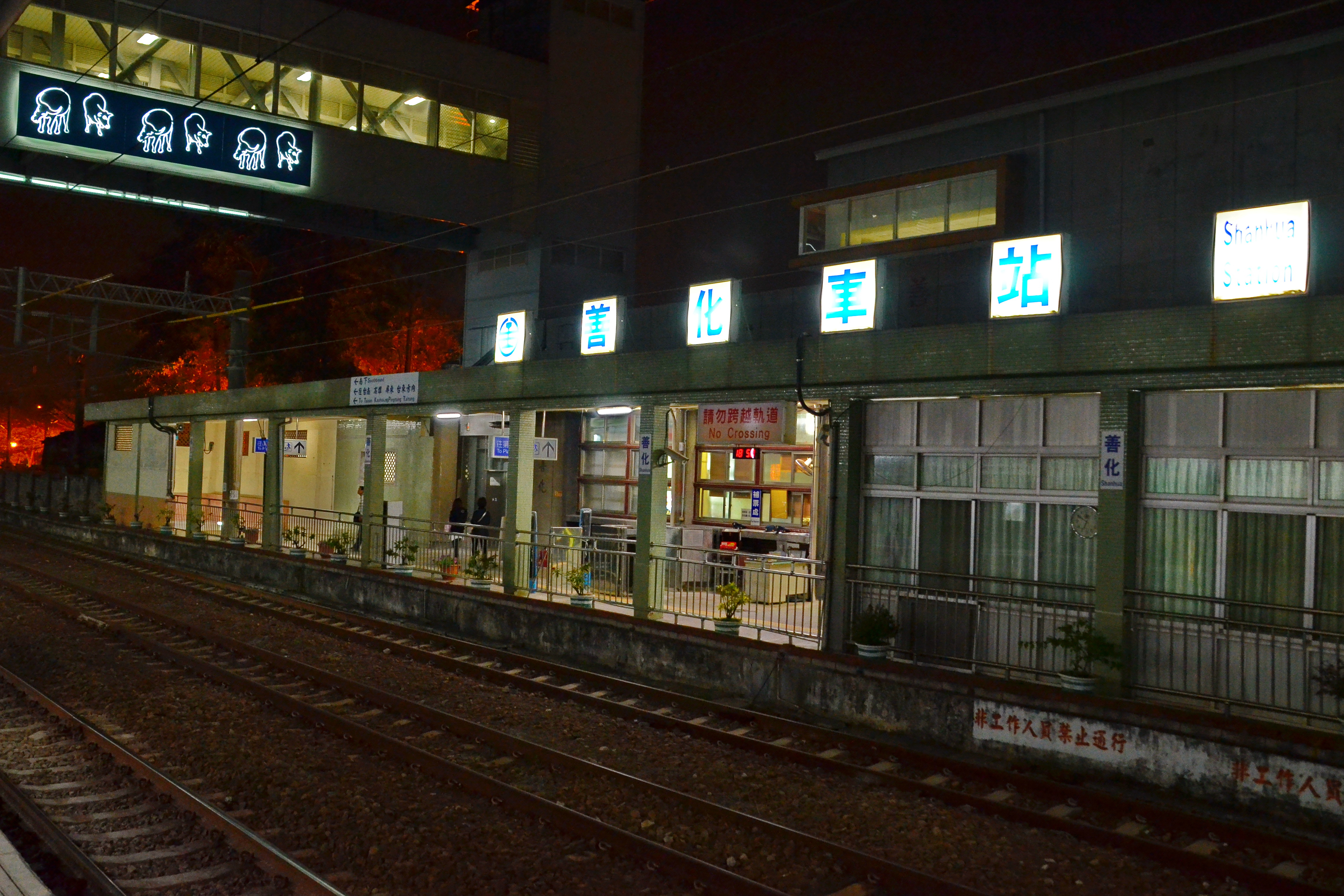 Shanhua Station, the view from Platform 1, Tainan City, Taiwan.